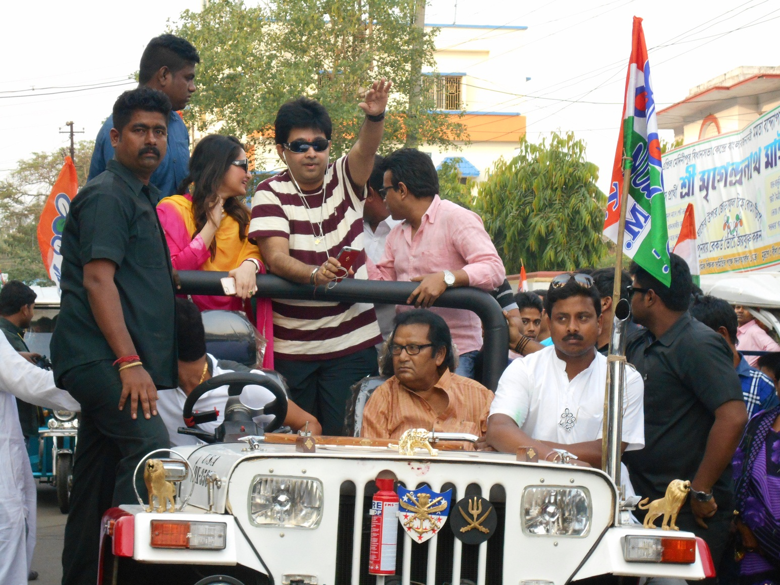 Jit,Rudranil & Tanushree attending a road show in support of Mrigendra Nath Maity